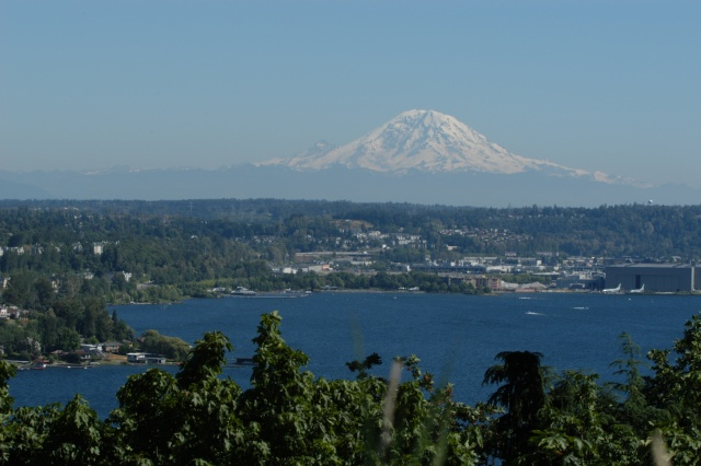 Mount Rainier as seen from Mercer Island, Washington.Mount Rainier